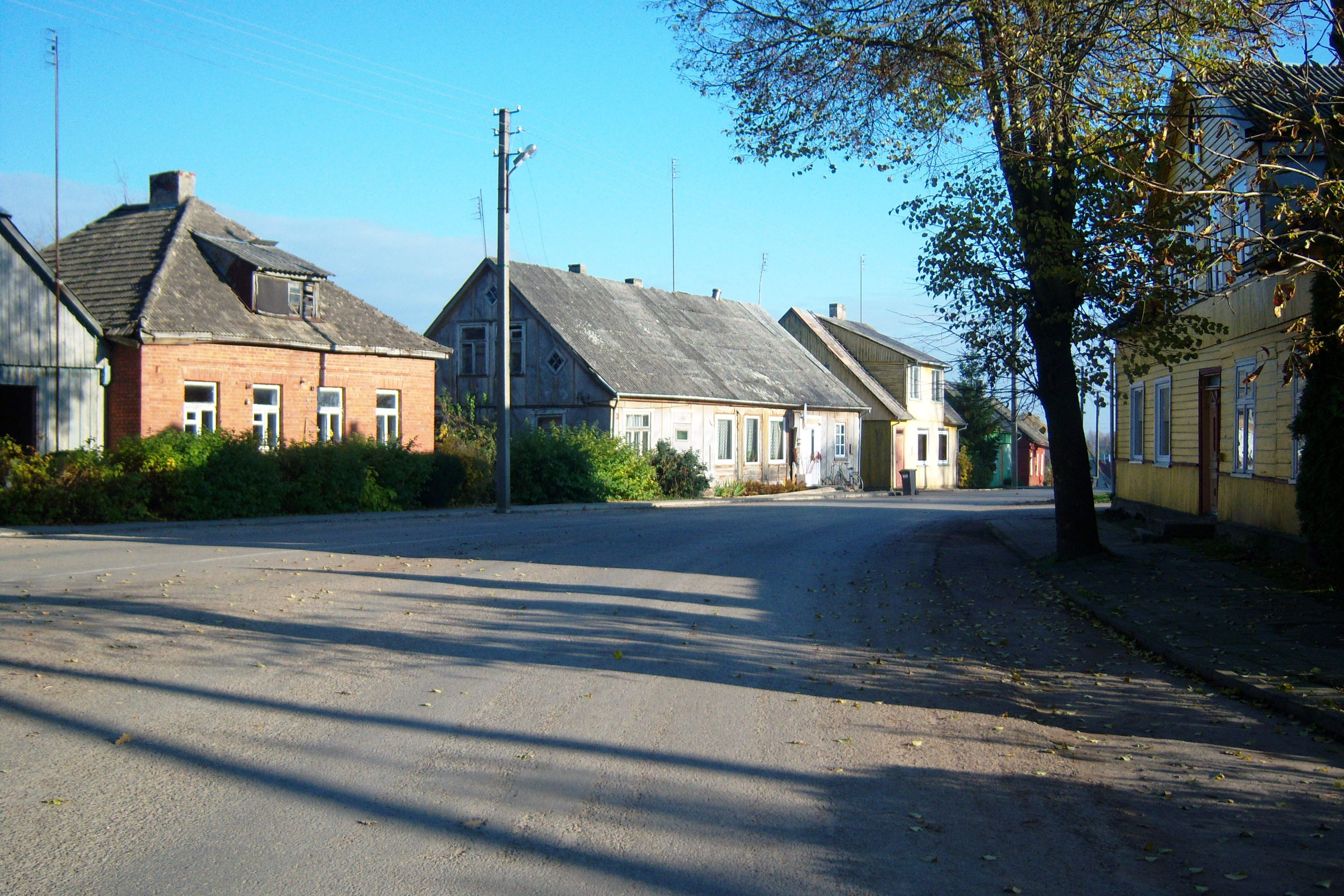 Ylakiai, center, one of the streets, Skuodas District. Lithuania